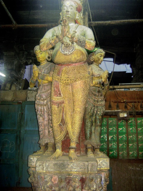 Photo Image of King of Madurai : The Great King Thirumalai Nayak